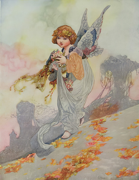 Autumn from the Seasons commissioned for the 1920 Pears Annual